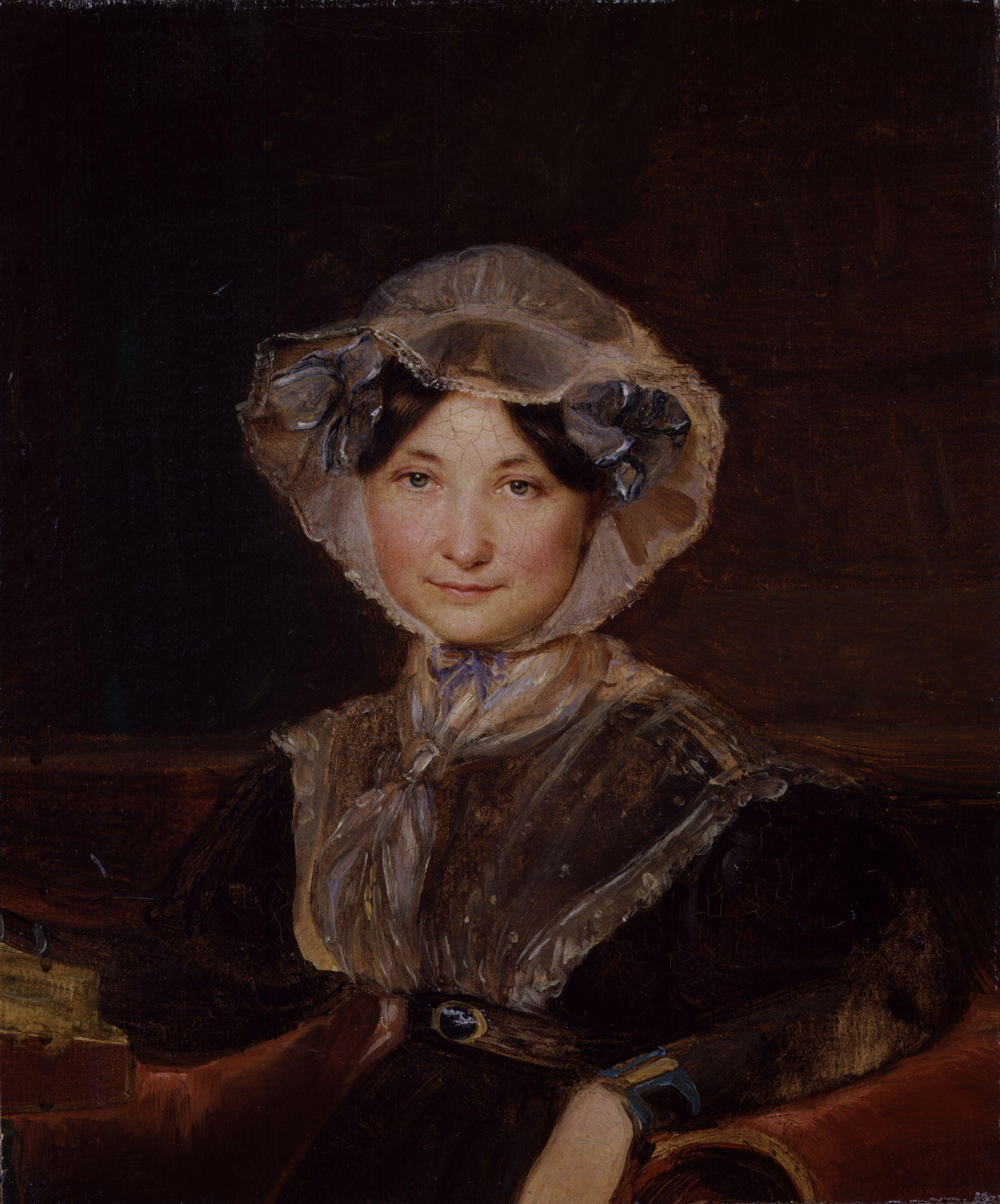 Frances Trollope, by Auguste Hervieu (floruit 1819-1858). All images in this batch have a known author with unknown death date, but according to the NPG's website the author was floruit (known to be active) prior to 1859, and so is reasonably presumed dead by 1939.